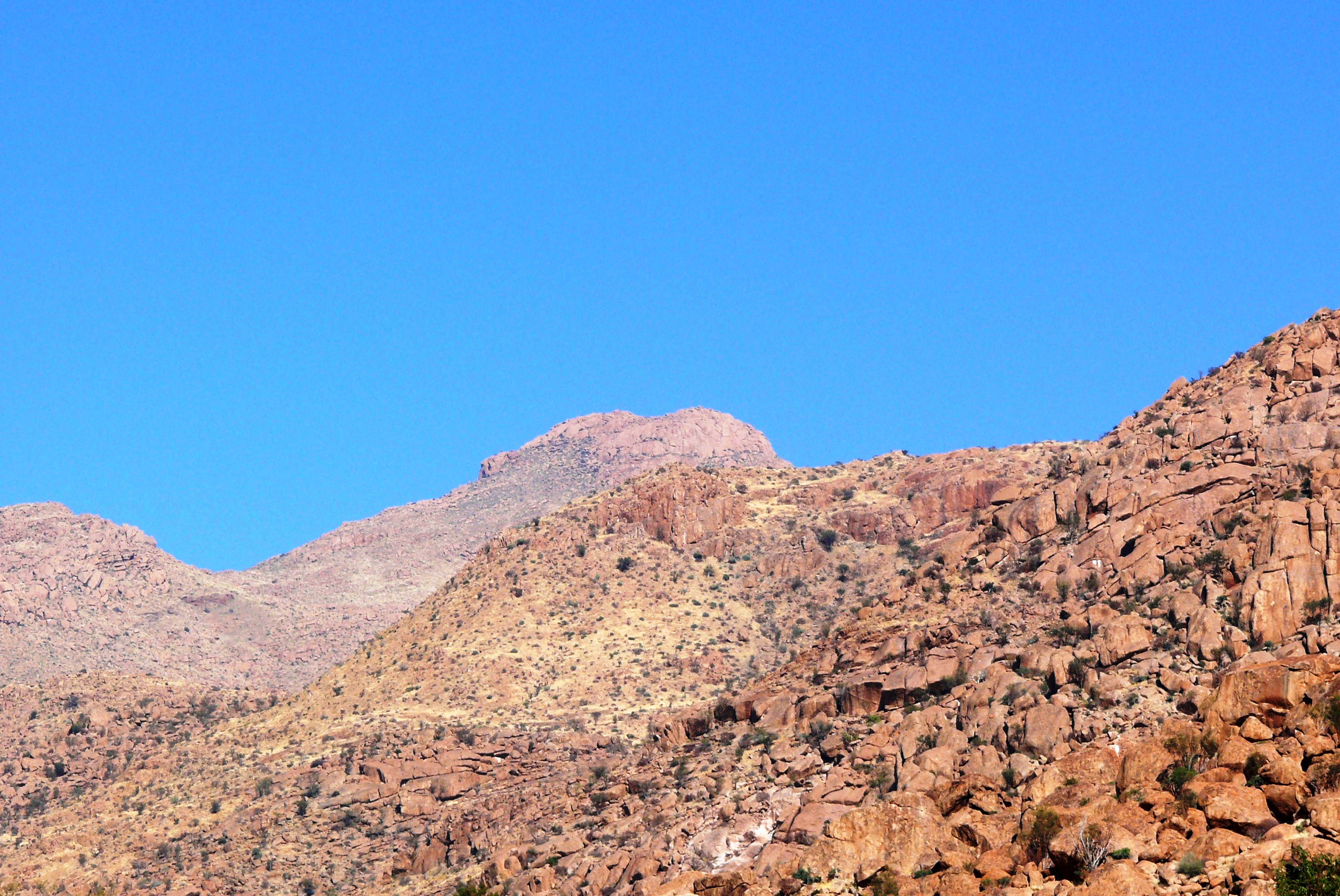 Konigstein